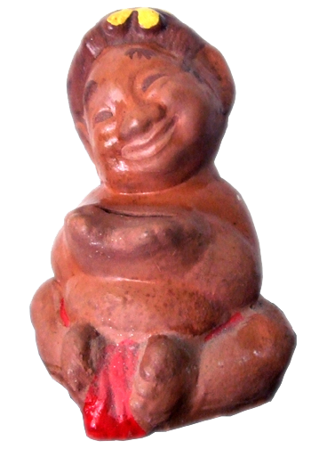 Image of small Menehune Bank from 1946. Made for Bank of Hawai‘i. This little fellow was a promotional giveaway to encourage island children to save their pennies.